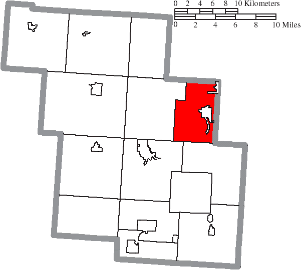 Map of the municipal and township boundaries of Perry County, Ohio, United States, as of the 2000 census, with the location of Harrison Township highlighted. Township borders are shown only in unincorporated areas in order to differentiate incorporated and unincorporated areas more clearly.